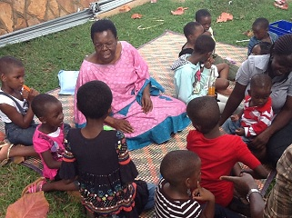 with the children at the cultural centre Bukoto